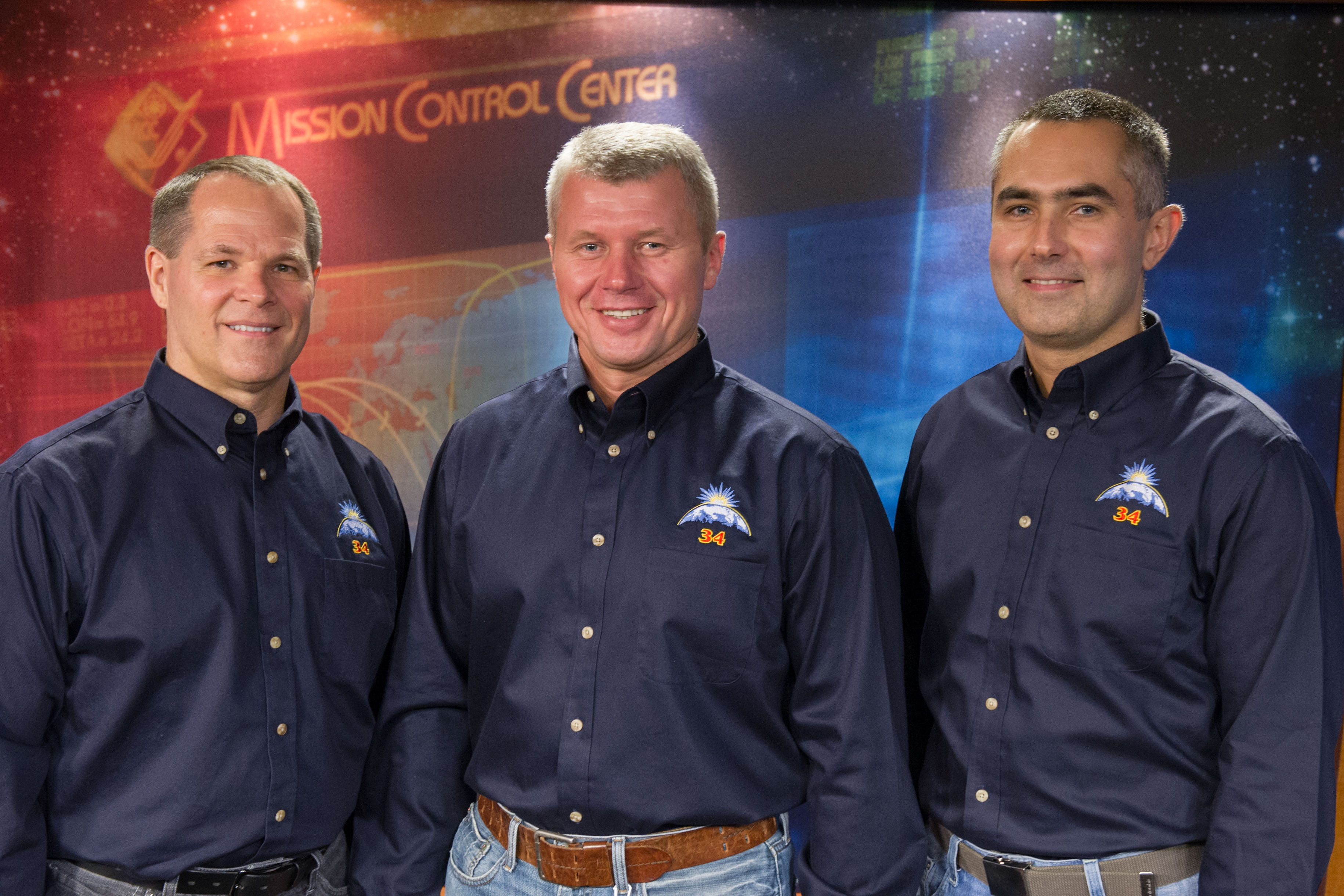 NASA astronaut Kevin Ford (left), Expedition 33 flight engineer and Expedition 34 commander; along with Russian cosmonauts Oleg Novitskiy (center) and Evgeny Tarelkin, both Expedition 33/34 flight engineers, pose for a portrait following an Expedition 33/34 preflight press conference at NASA's Johnson Space Center.